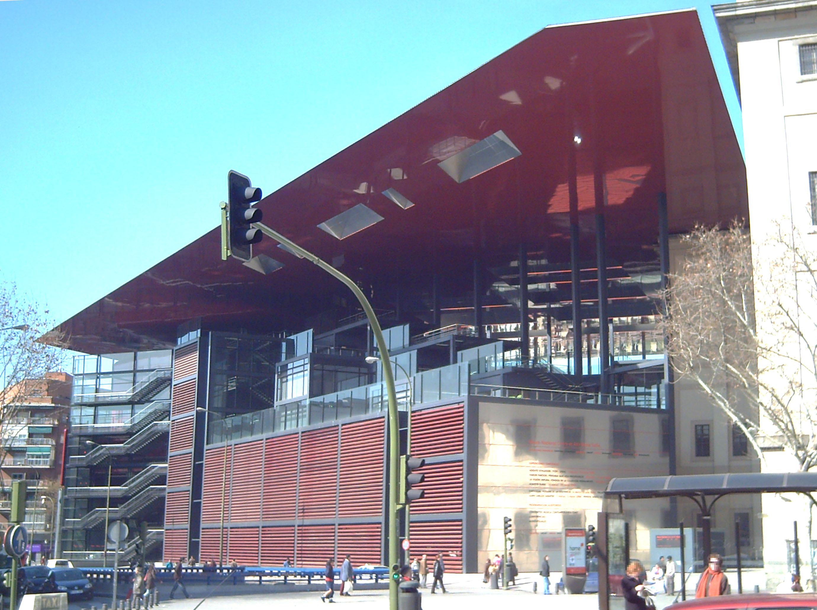 Extension of Queen Sofia Museum (MNCARS) in Madrid (Spain). Projected by architect Jean Nouvel (born 1945) and built from 2002 to 2005.